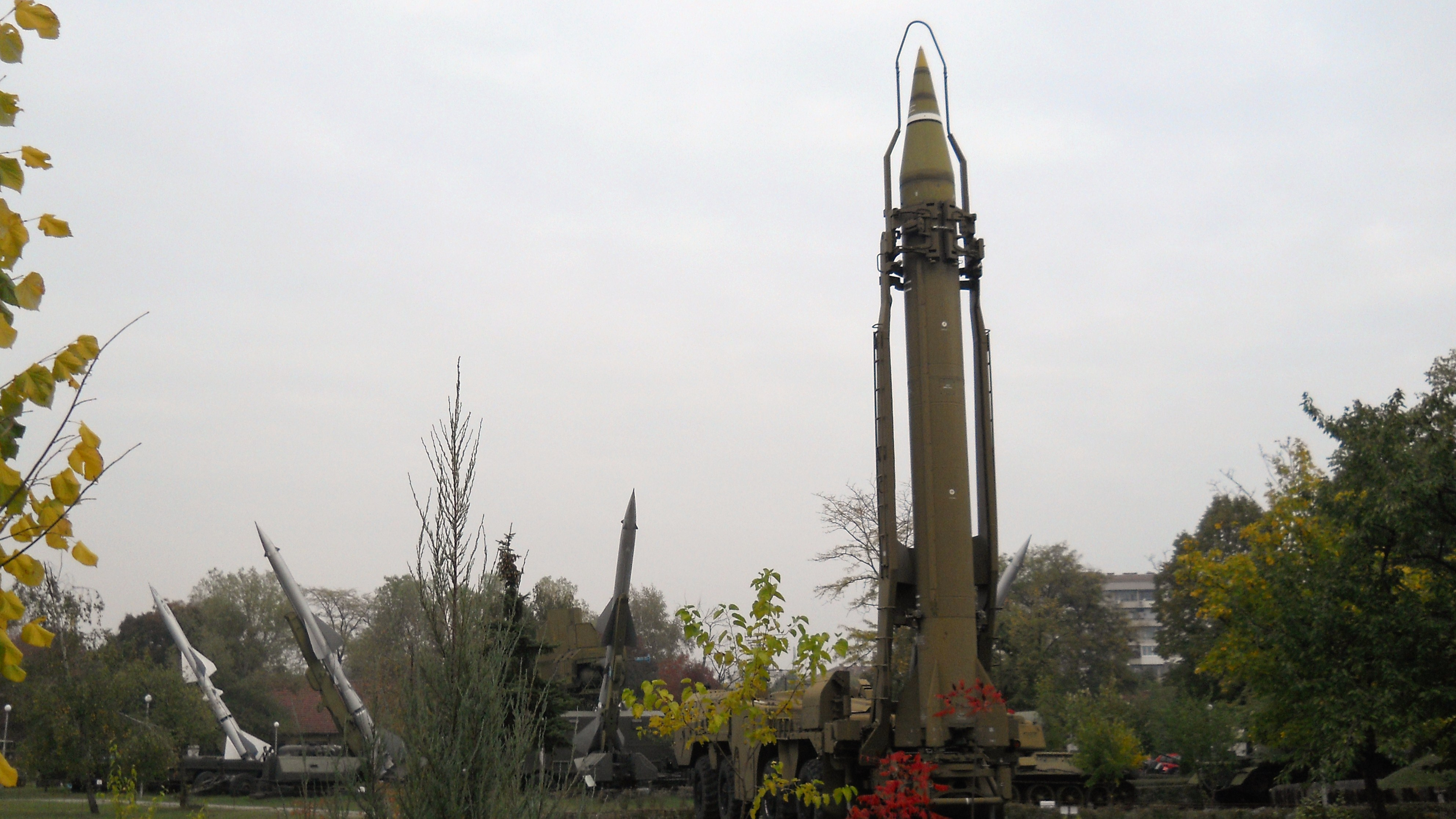 Several different types of missiles at the National Museum of Military History, Bulgaria.